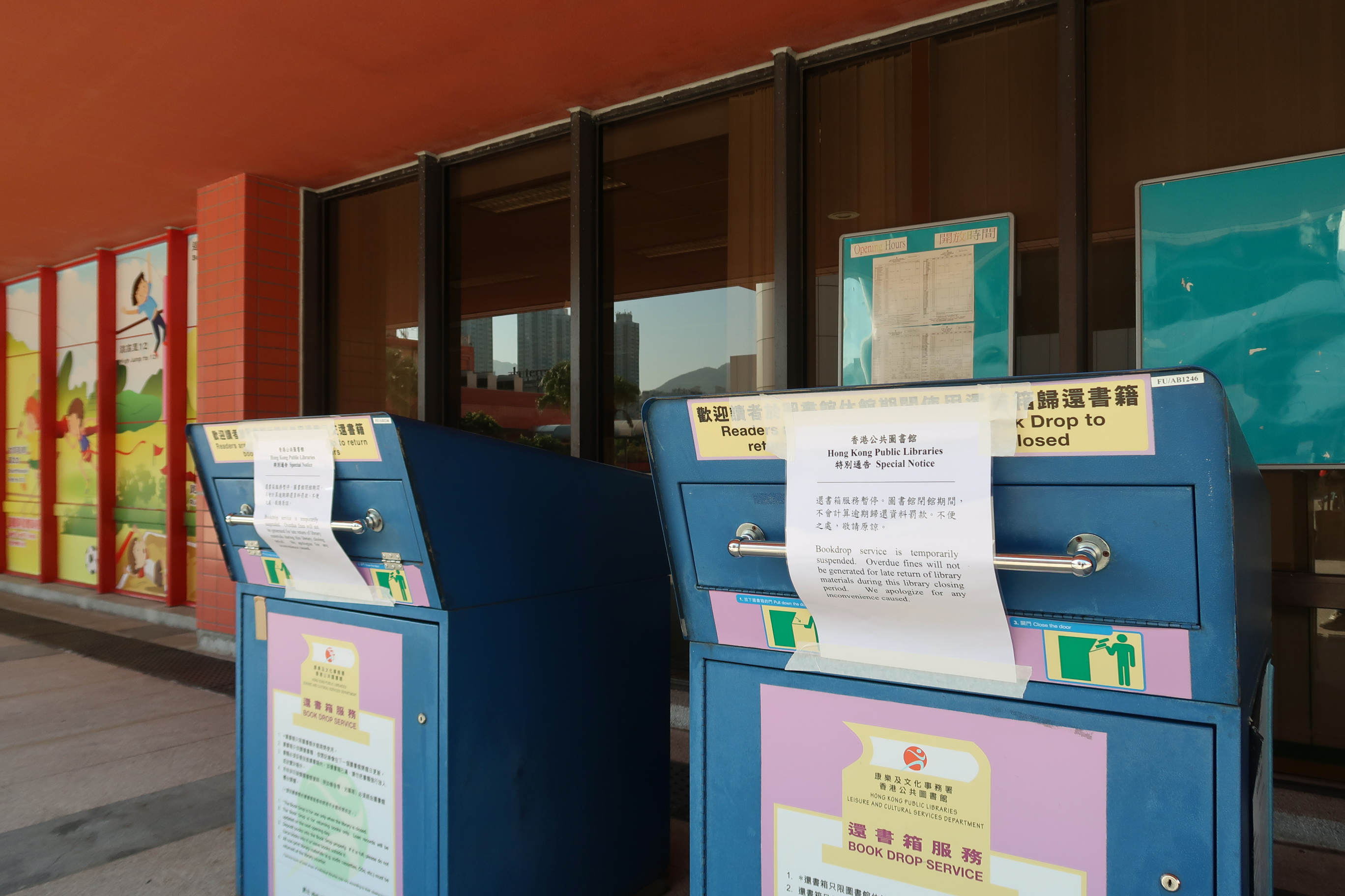 Shatin Town Public Library Bookdrop service close